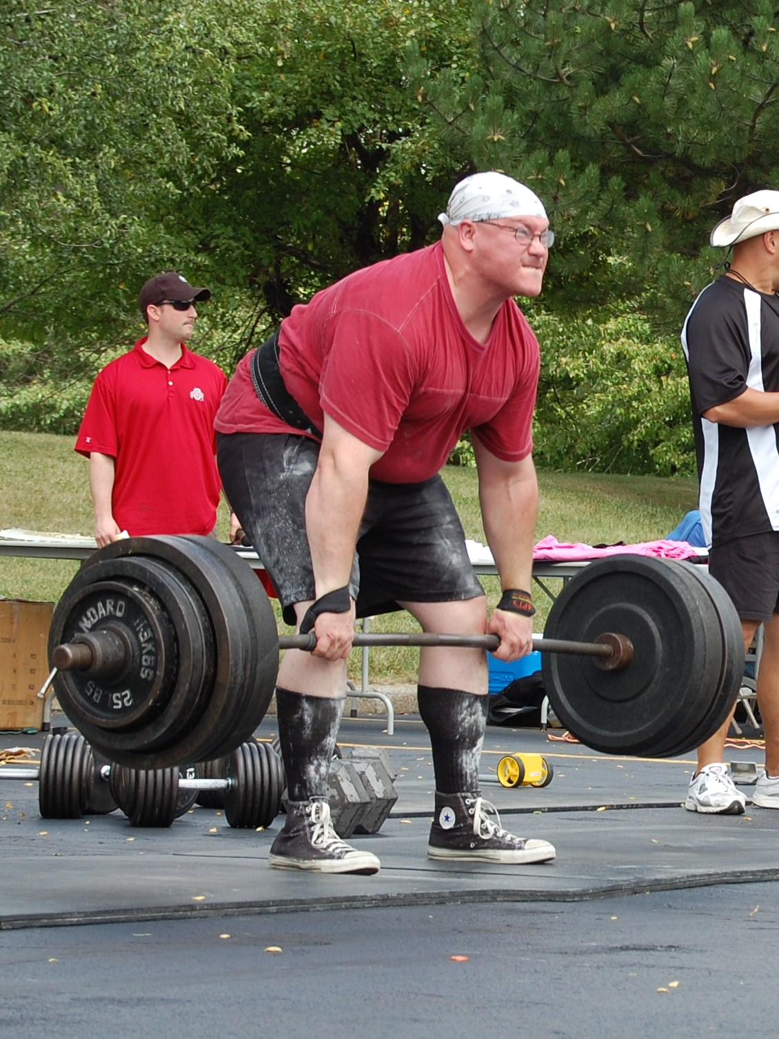 Strongmen event: the Deadlift.